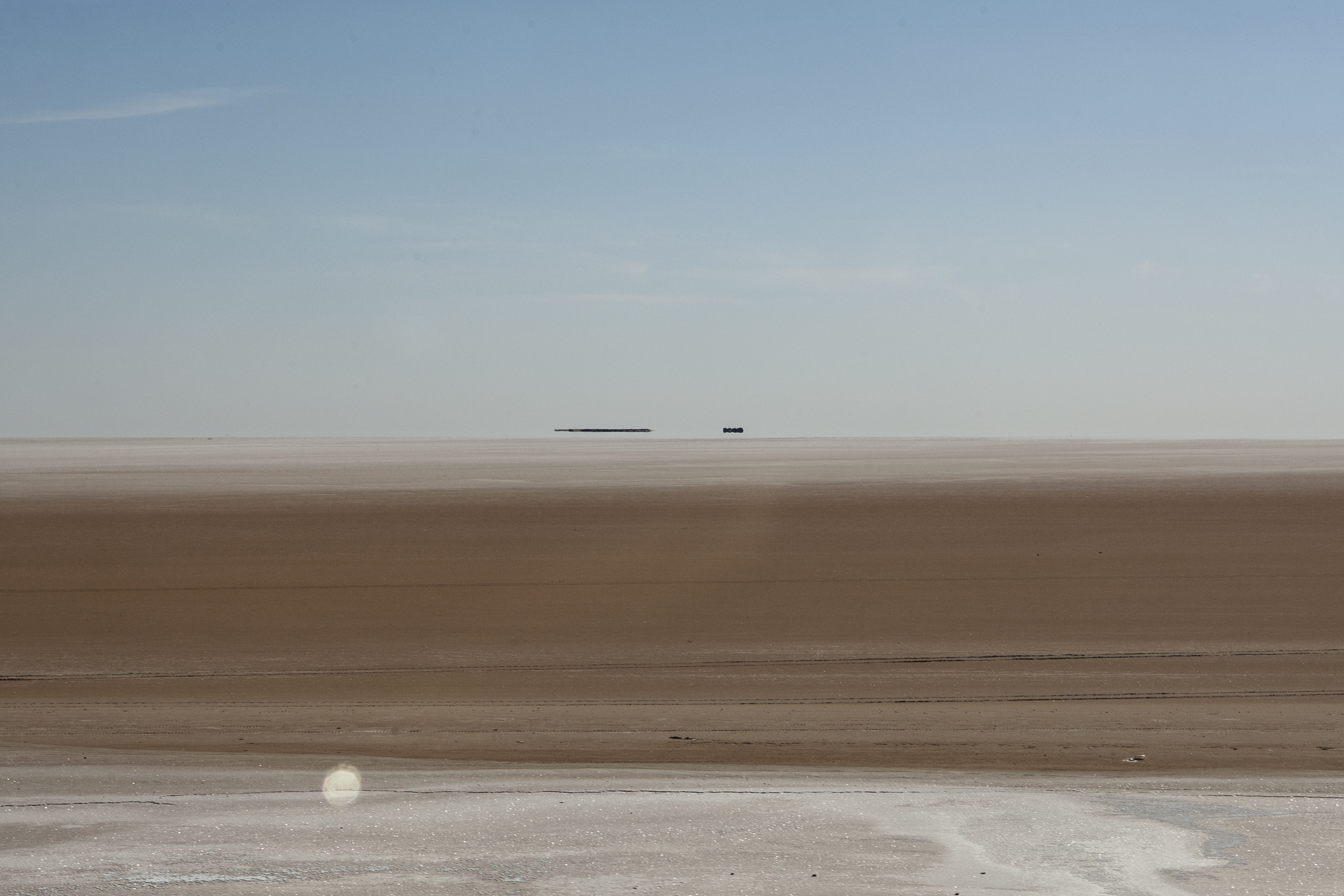 Chott el Djerid. Fata morgana